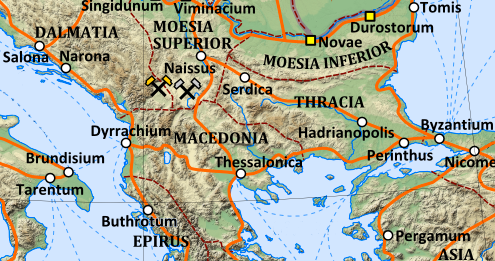 map of the Balkans in AD 125